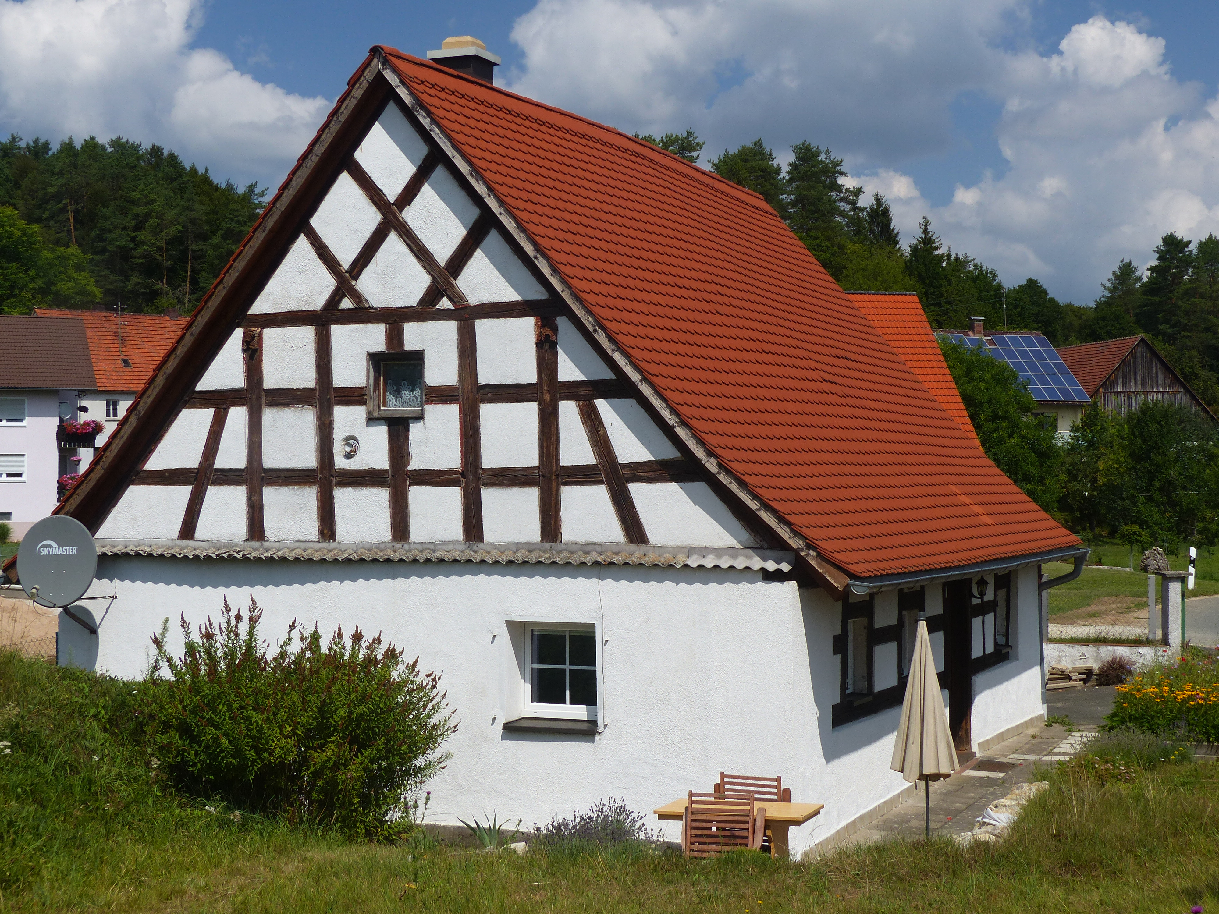 A former herdsman's house in the village Herzogwind, a district of the municipality of Obertrubach